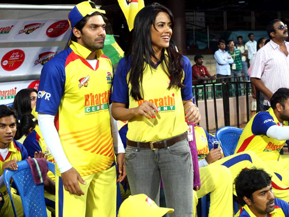 Sameera Reddy seen with Arya watchingSameera Reddy spotted at